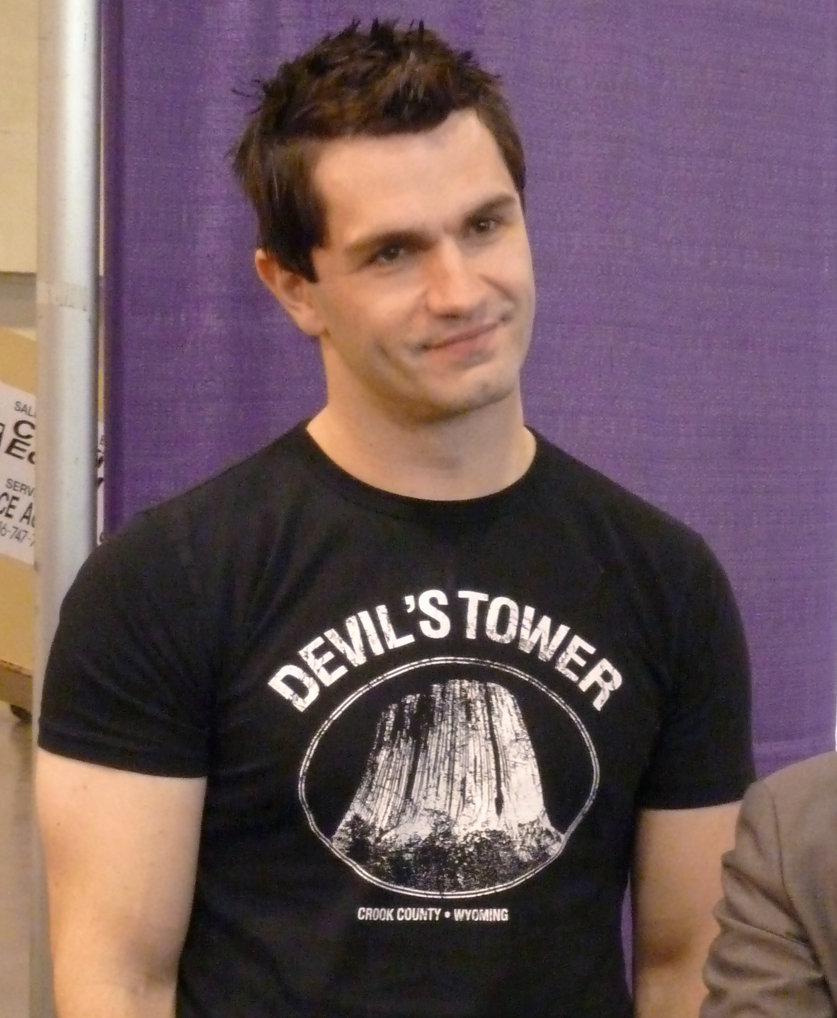 Samuel Witwer of "Being Human" at Wizard World Toronto 2012.